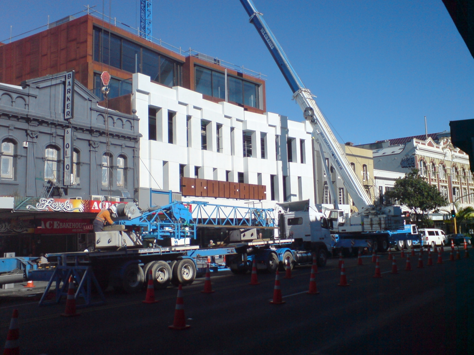 The Ironbank development's construction crane being dismantled on Karangahape Road, Auckland City, New Zealand.